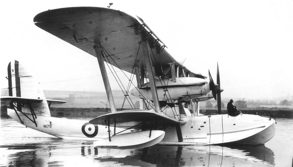 Photograph of the Short Singapore I (N179) prototype flying boat. Other information 'The first flying-boat named ‘Singapore’, N179, the only Singapore Mk.I built, not because it was a bad aircraft, but only because the Air Ministry had changed the specifications. The silhouette shows that this design was mid-way between the WW1 flying boats and the next generation to come. Note that N179 is shown here in its final form with Rolls-Royce H.10 Buzzard engines and Handley Page auto-slots on the upper wings. Note the name ‘Singapore’ written on the bow.